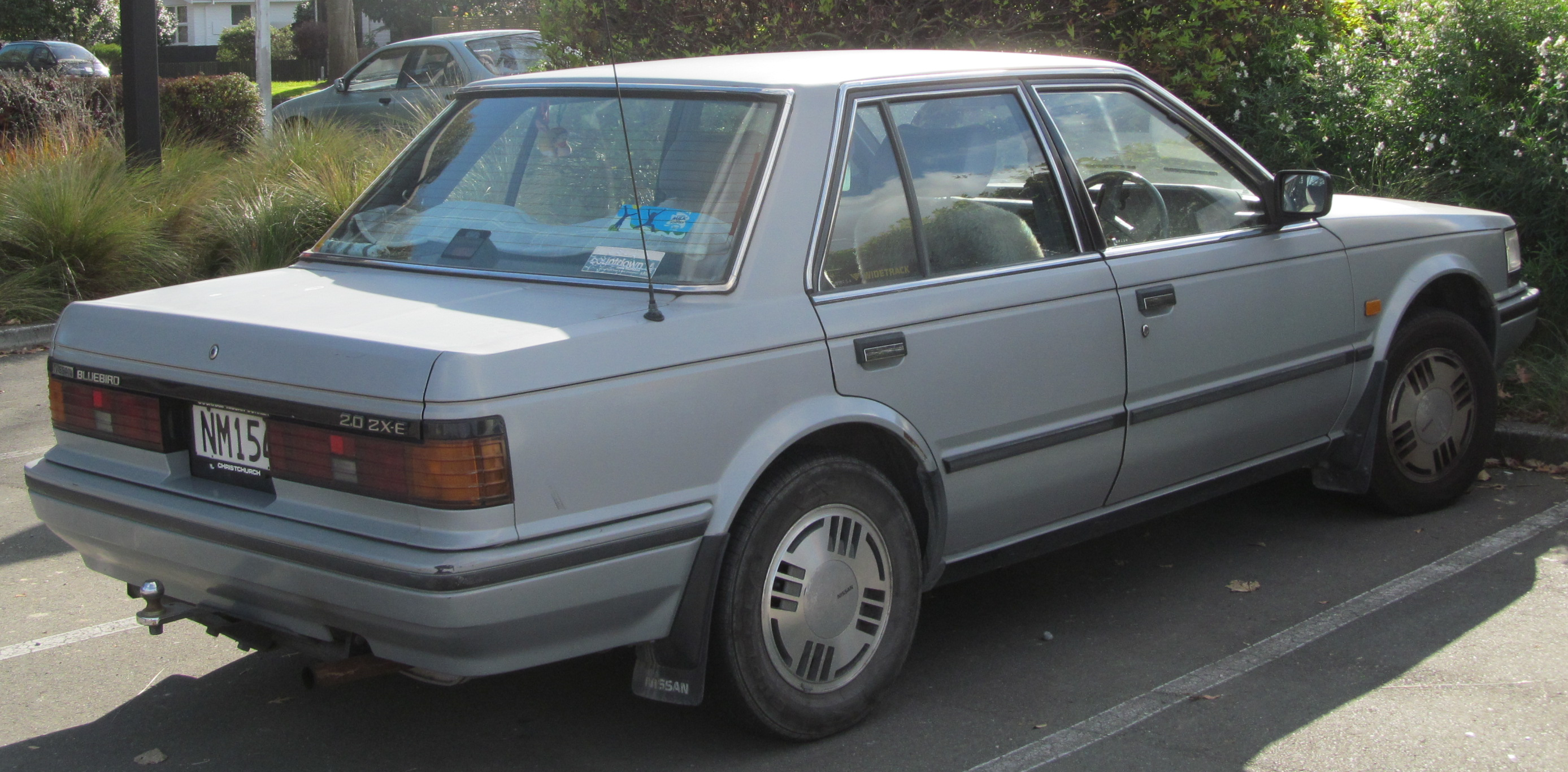 1987 Nissan Bluebird 2.0 ZX-E (NZ new).